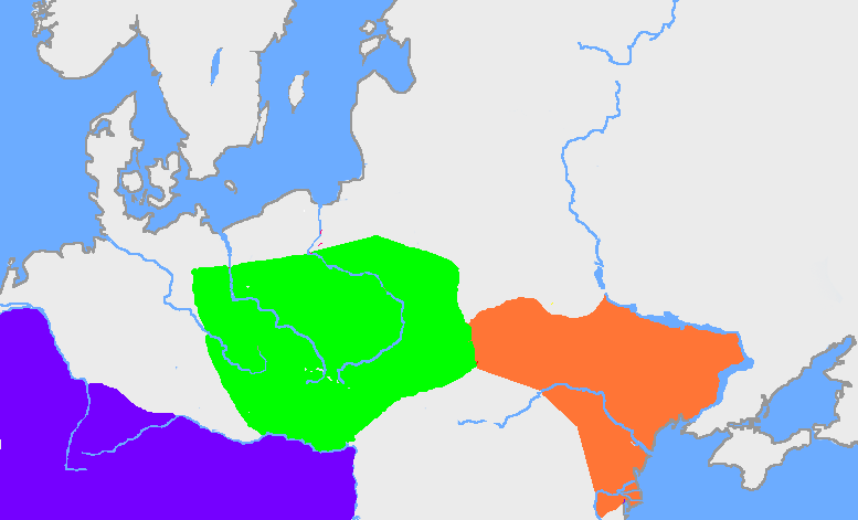 Two cultures: Praska (green area) and Pienkowska (orange area)